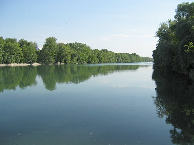 Isar River north of Munich.